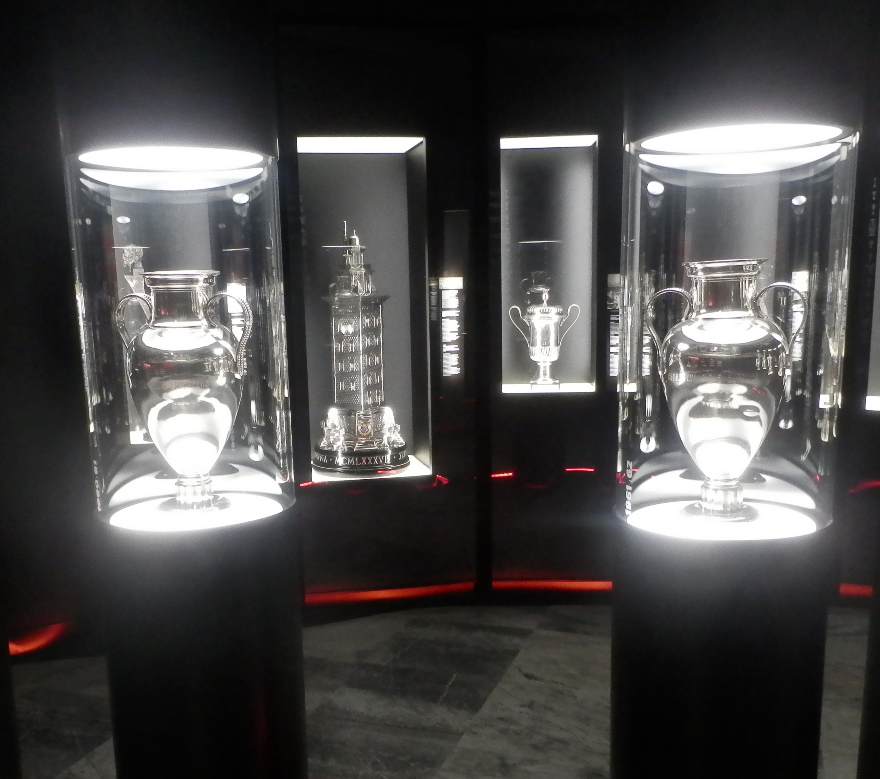 The 1960-61 and 61-62 European Cup's